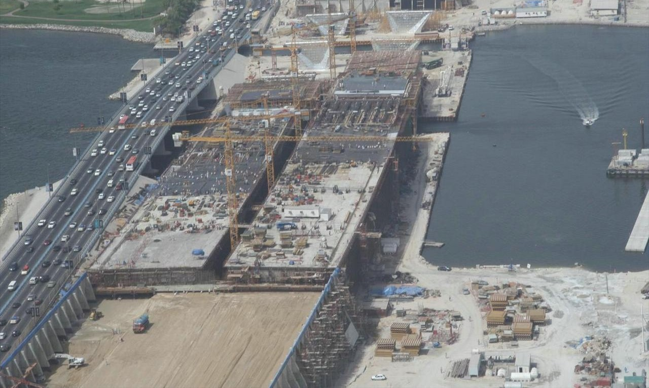 This is a photo showing a close-up of the construction of the new Al Garhoud Bridge over Dubai Creek in Dubai, United Arab Emirates as seen from the air looking toward Deira on 1 May 2007. The size of the new bridge is evident by looking at the current bridge and the future bridge.